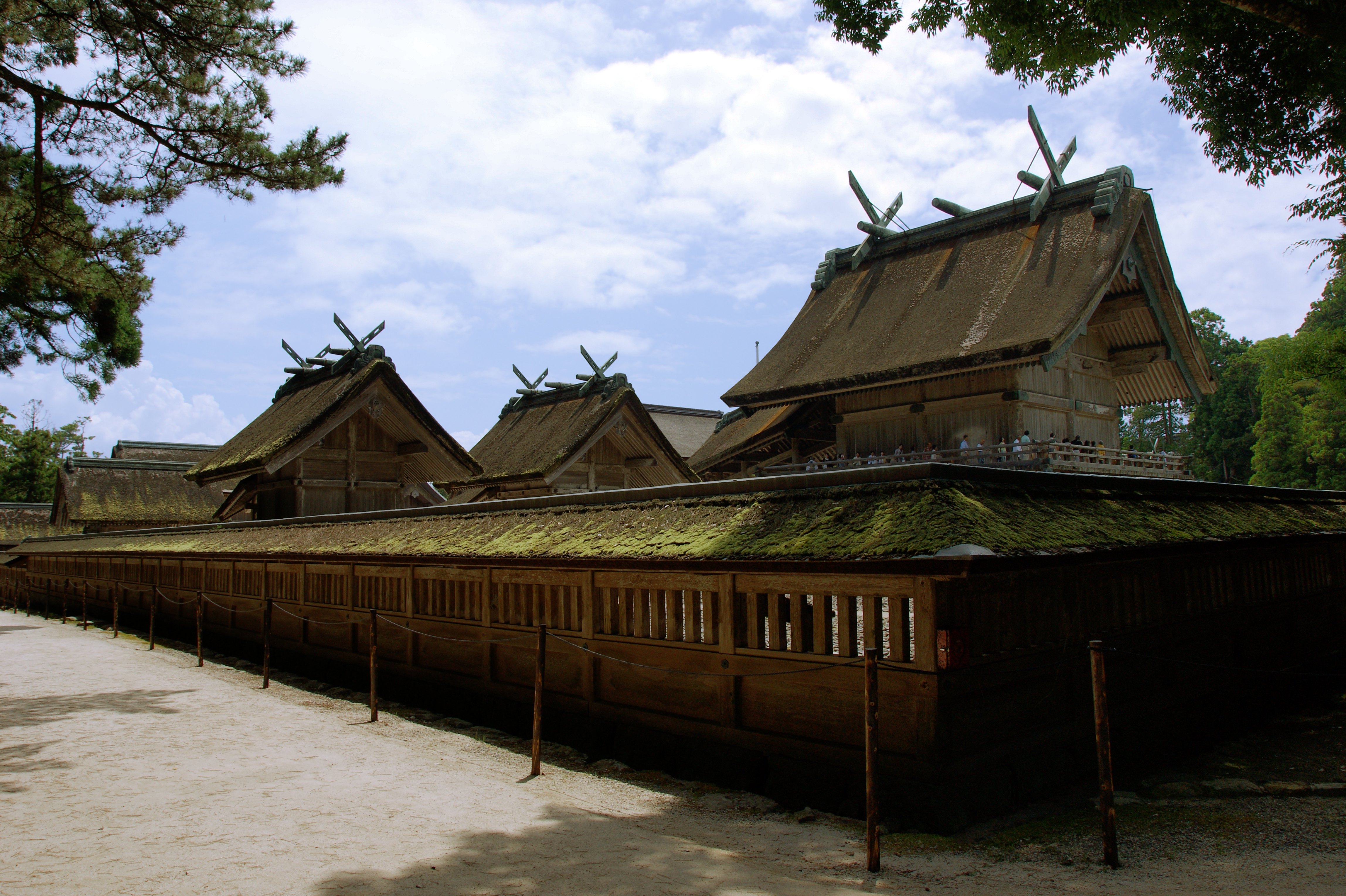 Izumo Taisya, Izumo, Shimane prefecture, Japan